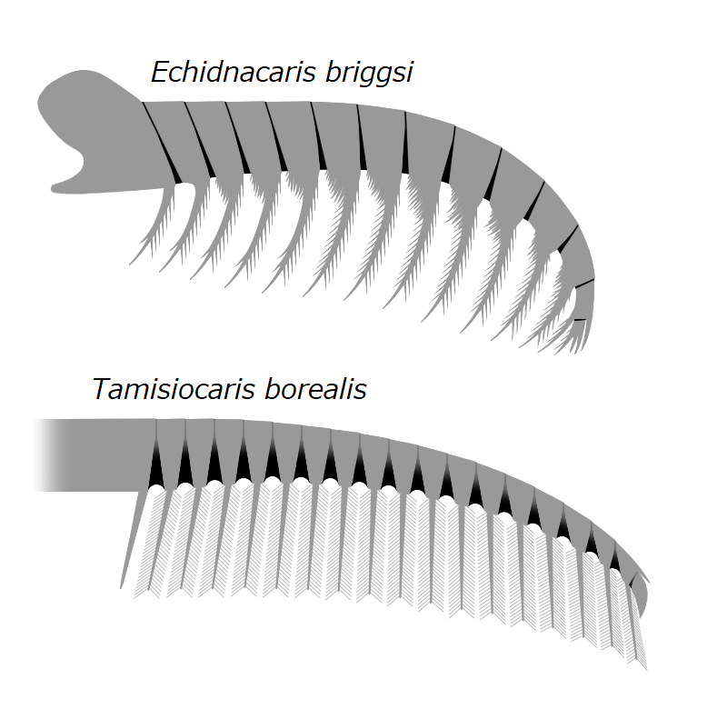 Examples of radiodont frontal appendages from the family Tamisiocarididae (formerly Cetiocaridae). Size not to scale.